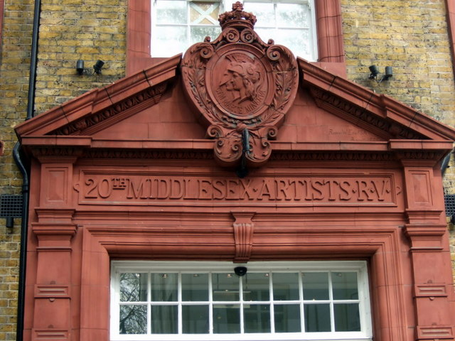 The Artists' Rifles HQ This magnificent terracotta fascia befits the distinguished artistic corps which won 8 VCs in WW1 and numerous other honours during its existence between 1860 and 1939. Their motto, Cum Marte Minerva - with Mars (the god of war) and Minerva (the god of the arts), - was given a scatological rendition, not surprisingly.